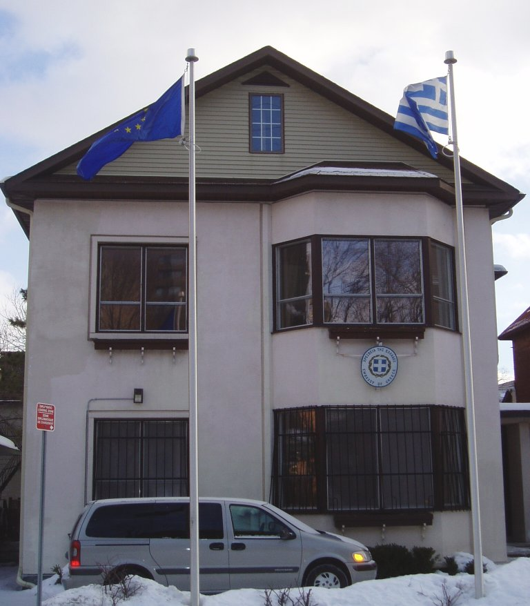 Embassy of Greece in Ottawa, Canada